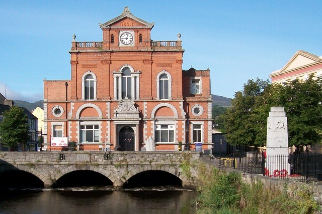 Newry's War Memorial and Town Hall in Bank Parade The cenotaph on the banks of the Clanrye River commemorates the fallen of the Two World Wars. It was not erected until 1938. Sadly, no names are carved on the memorial.